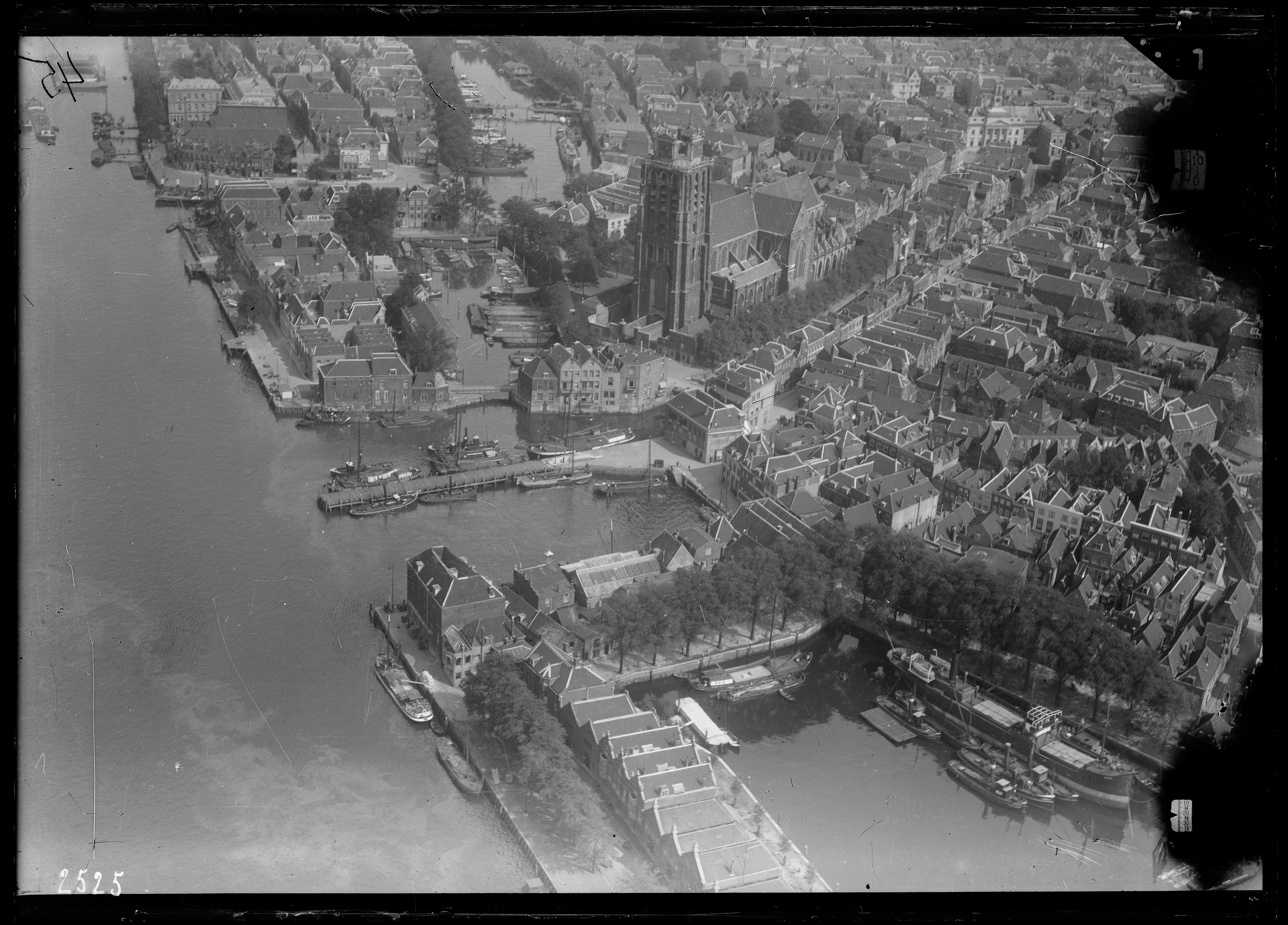 Aerial photograph of Dordrecht, The Netherlands